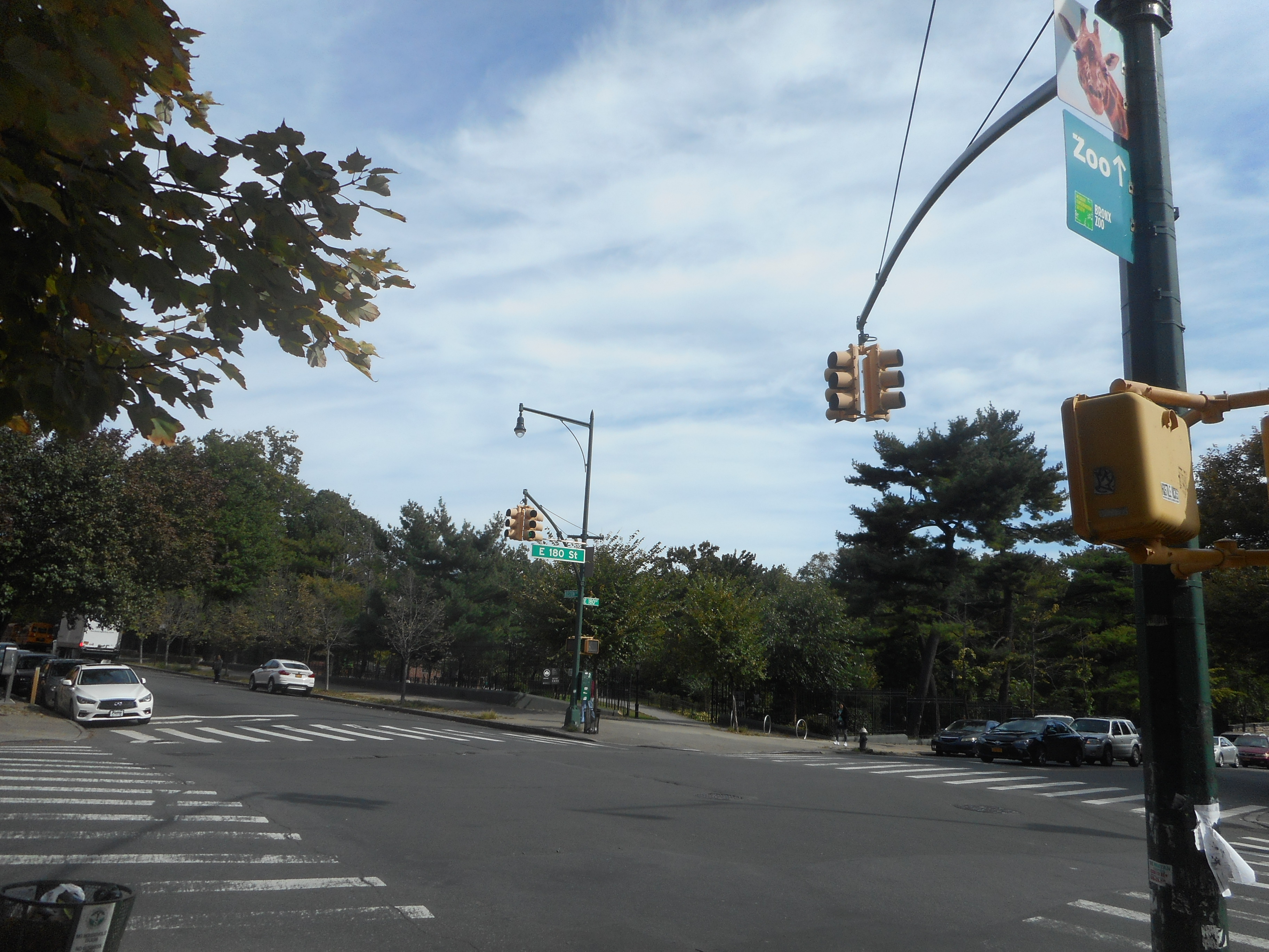 Looking from the southwest corner of Boston Road and East 180th Street at the pedestrian park entrance to Bronx Park, specifically the River Park on the northeast corner of Boston Road and East 180th Street in the West Farms section of The Bronx, New York City. Taken during an attempt to capture the site of the former 180th Street–Bronx Park elevated railway station on the Bronx Park Spur of the IRT White Plains Road Line. The entrance is one block south of what is now a pedestrian exclusive (but two-lane car wide) entrance to The Bronx Zoo at Bronx Park South.NOTE: While this segment of Boston Road is historically part of the original Boston Post Road, it is not part of U.S. Route 1.